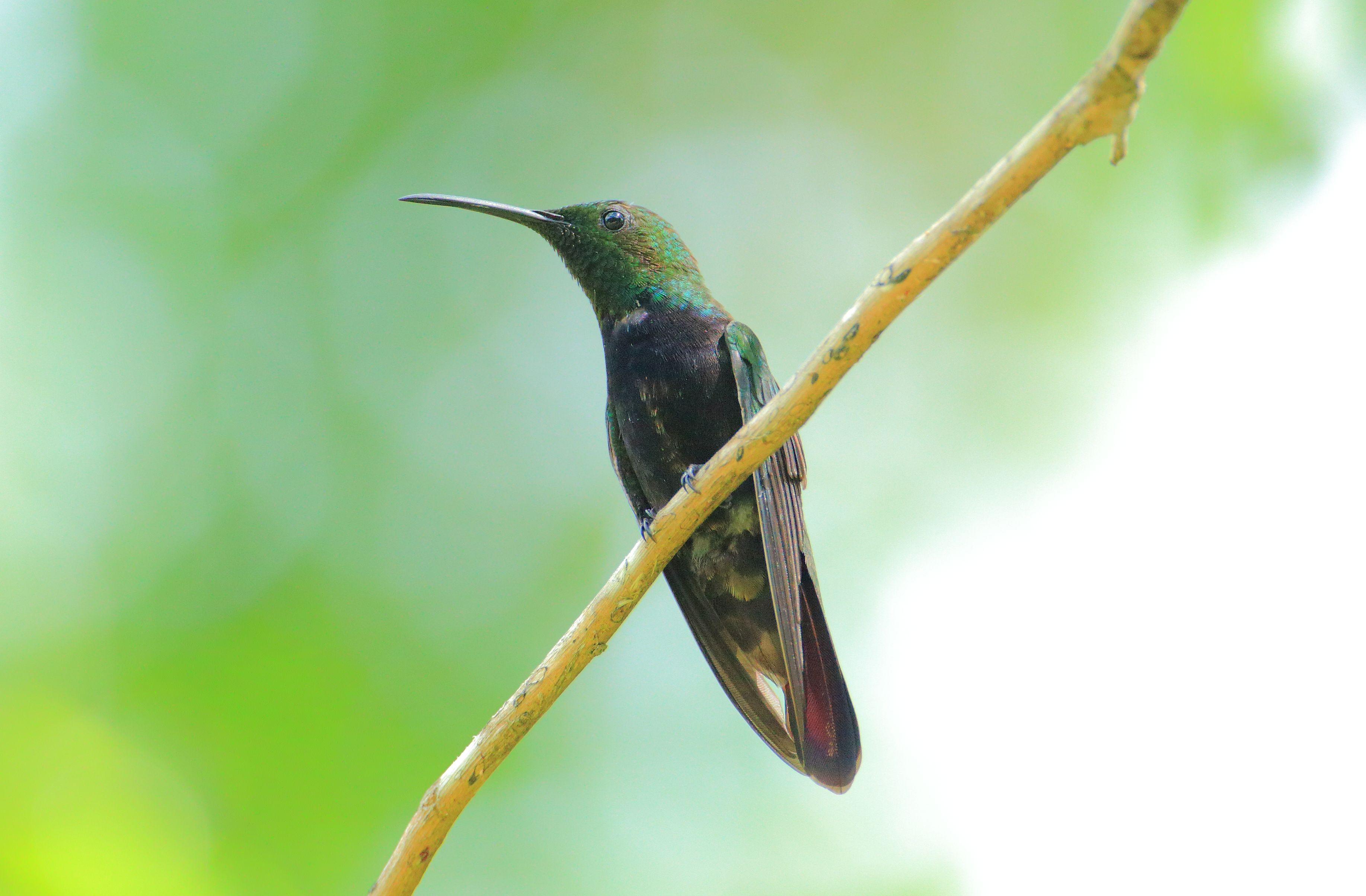 Hispaniolan Emerald Chlorostilbon swainsonii. Dominican Republic, near La Romana.